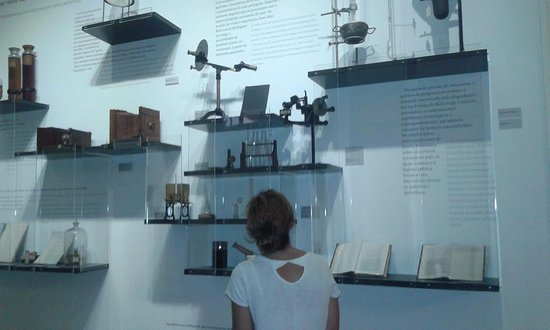 Sala Prof. Dr. D. António Pereira Forjaz (Museu da História Natural e Ciência)